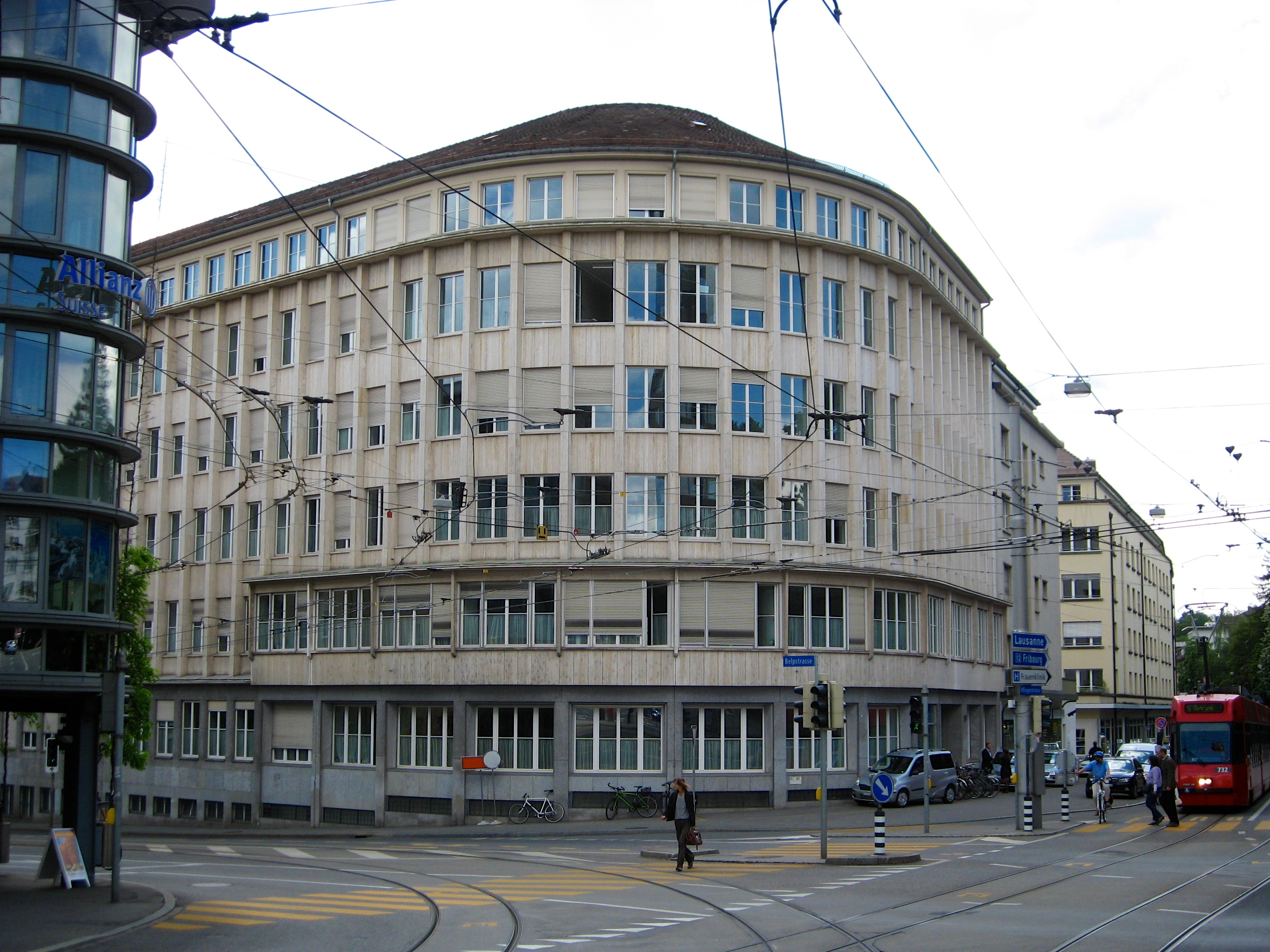 Effingerstrasse 27 in Berne, building designed by Karl Beer (1886–1965)